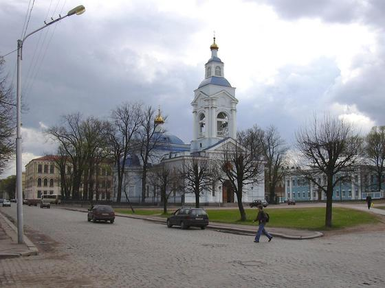 The church in Vyborg.